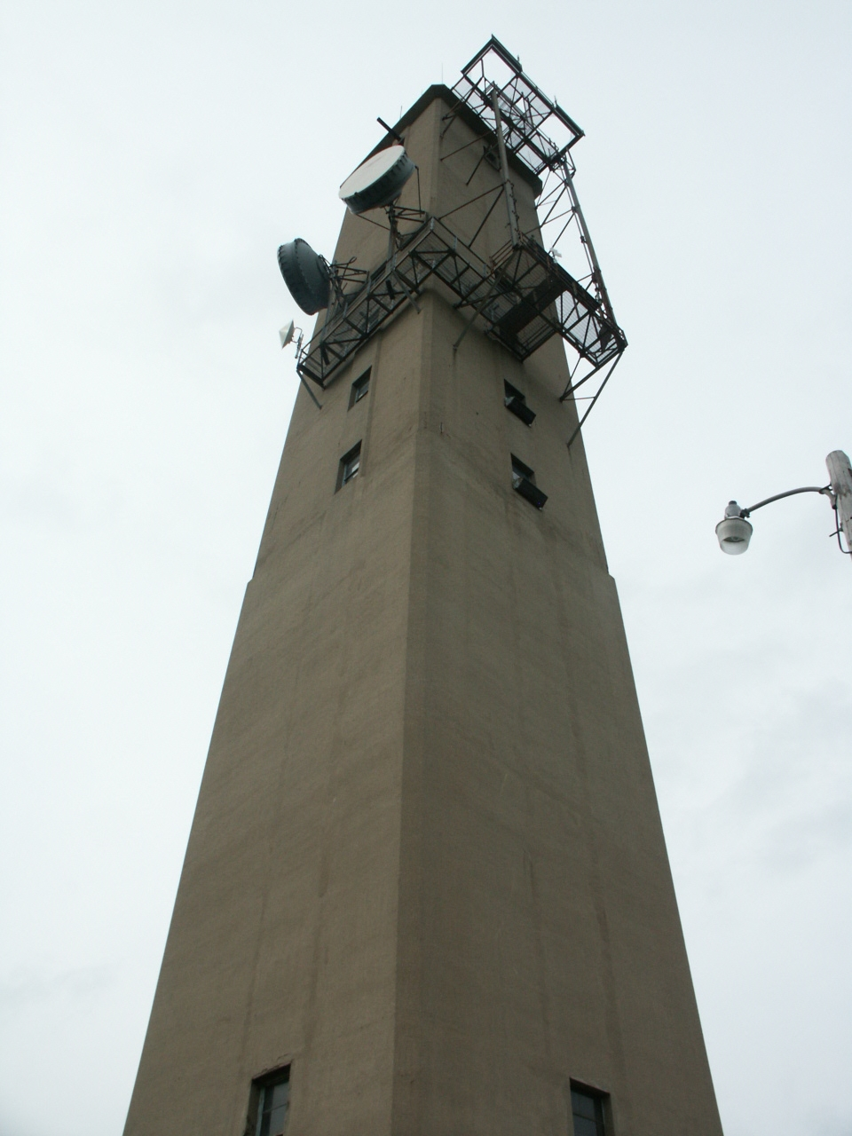 AT&T Long Lines Microwave Relay Tower just off of Indiana Hwy 49 north of Valparaiso, Indiana -- Still in use as a microwave television relay between Chicago and South Bend, Indiana. Tower is 25' square, 190' tall, and built of concrete using the slipform method. Picture by current owner of tower, Kevin Babich, of Engineered Structures in Valparaiso, Indiana